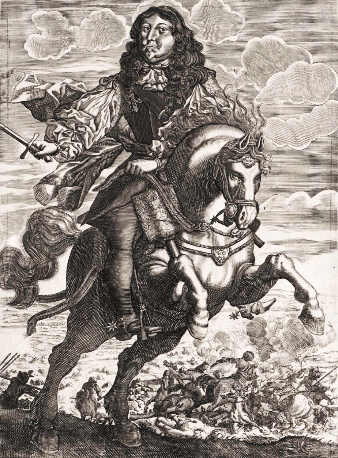 Philip Louis of Schleswig-Holstein-Sonderburg-Wiesenburg (1620-1689) was the founder and first duke of the line Schleswig-Holstein-Sonderburg-Wiesenburg. His branch of the House of Schleswig-Holstein-Sonderburg is named after Wiesenburg Castle, near Zwickau.